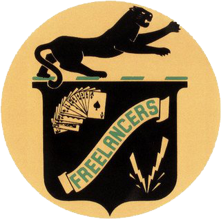 Patch of the U.S. Navy Fighter Squadron VF-21 "Free Lancers", in 1981-82.